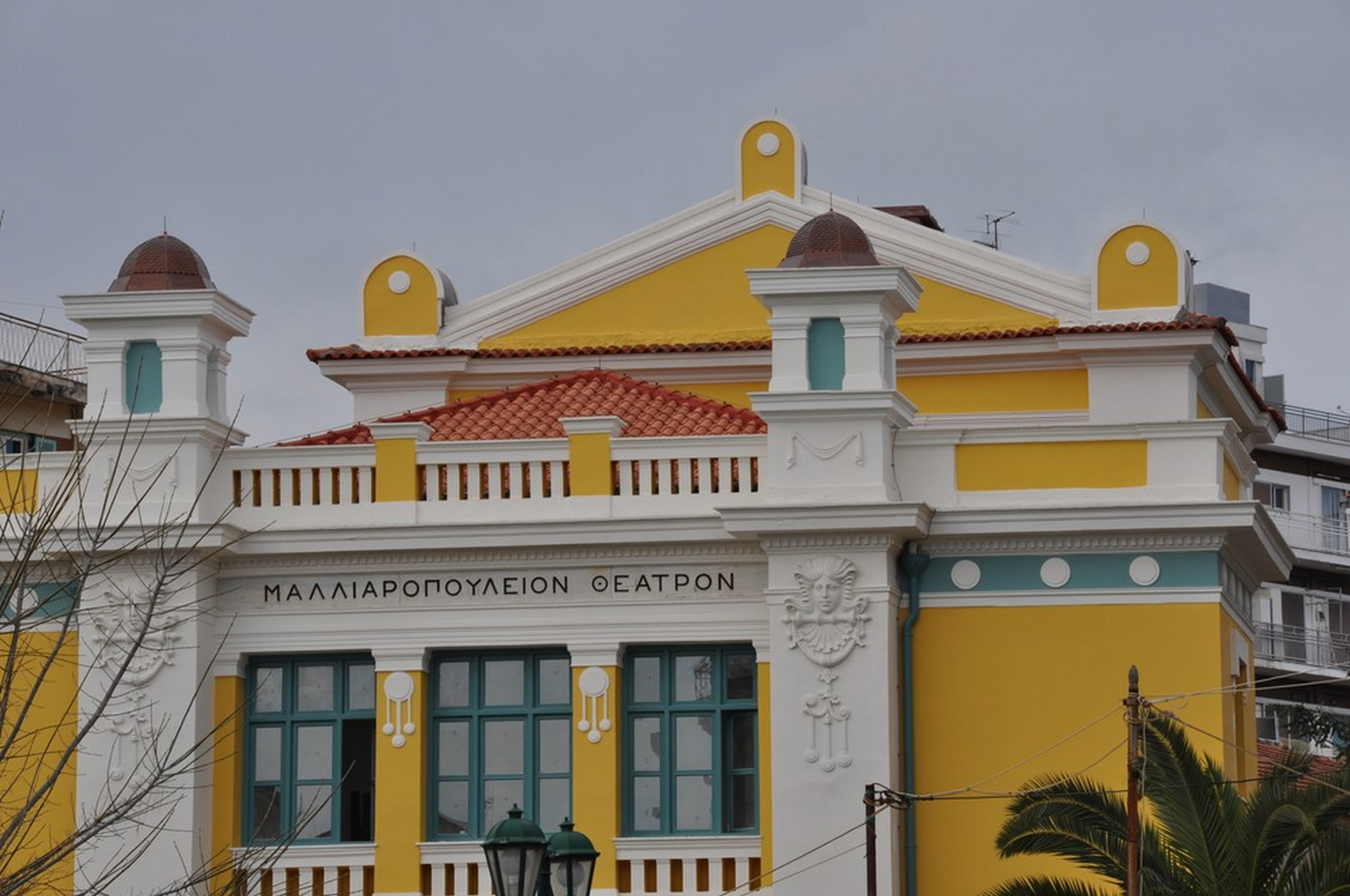 Municipal Theater of Tripoli, Arcadia